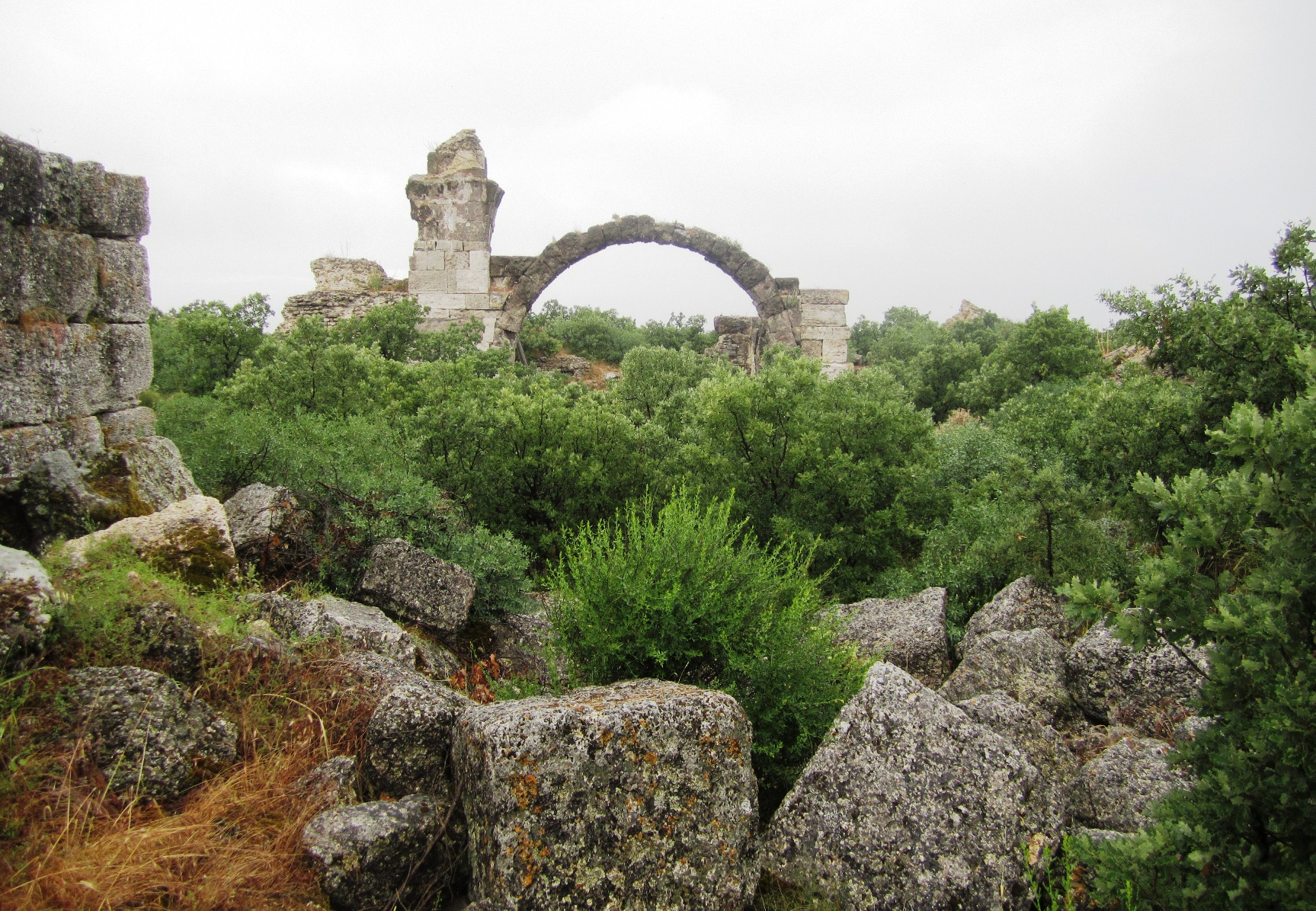 Ruins of Alexandria Troas